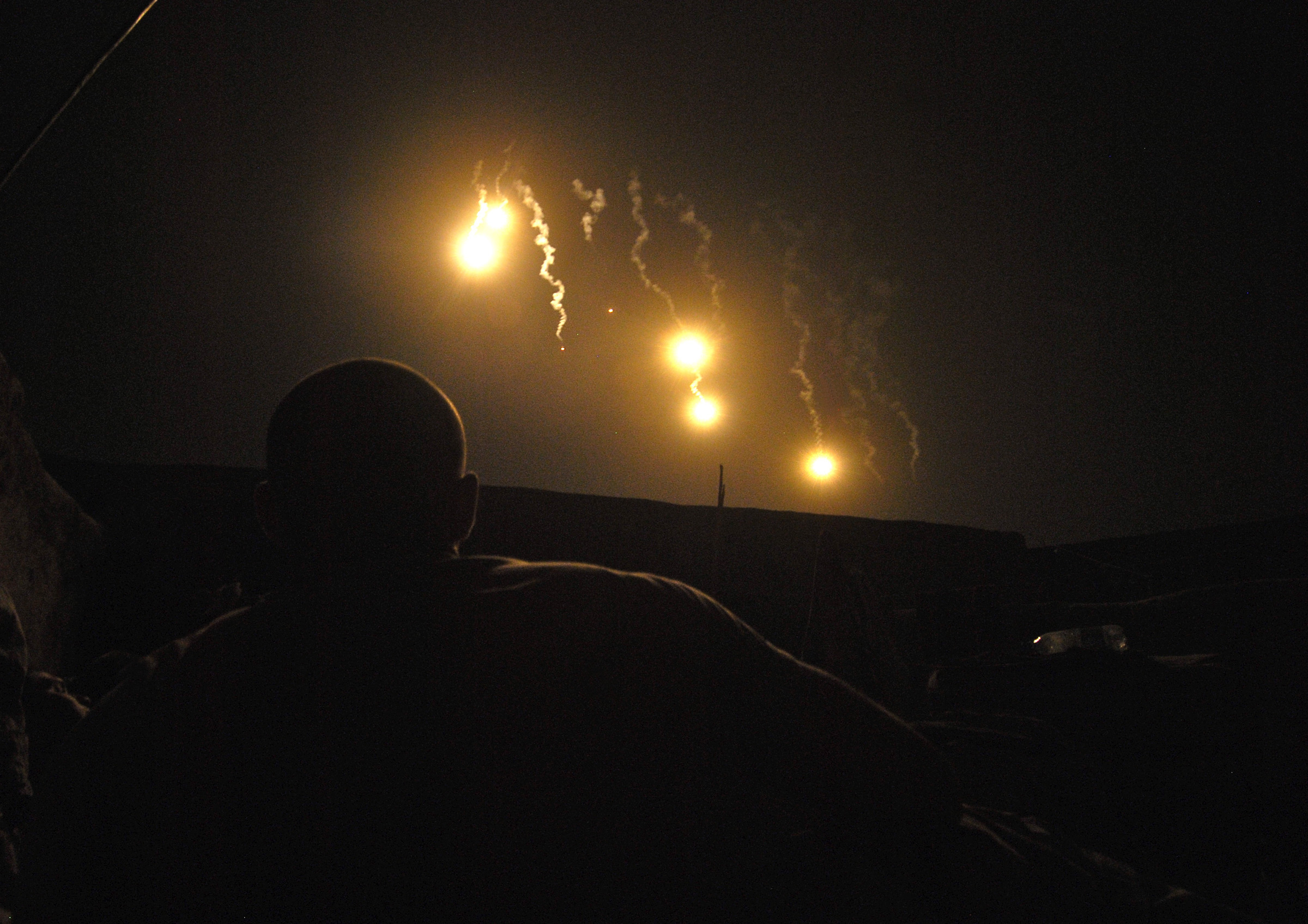 U.S. Army Capt. Andrew Fleagle, 1st Battalion, 12th Infantry Regiment fire support officer, observes illumination rounds fired during Operation Tora Arwa V in the Kandahar province Aug. 2. The illumination rounds were fired from M777 Howitzers and are used to help illuminate a certain area the Soldiers need to see.